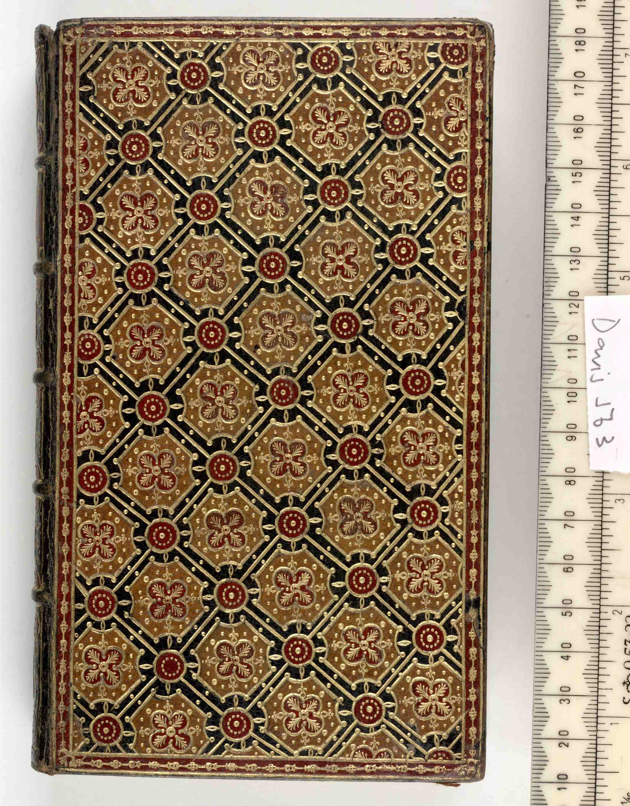 Style: Repeated motifs|All over design|Diaper; Caption: Upper cover; Colour: Black; Edge: Marbled under gilt